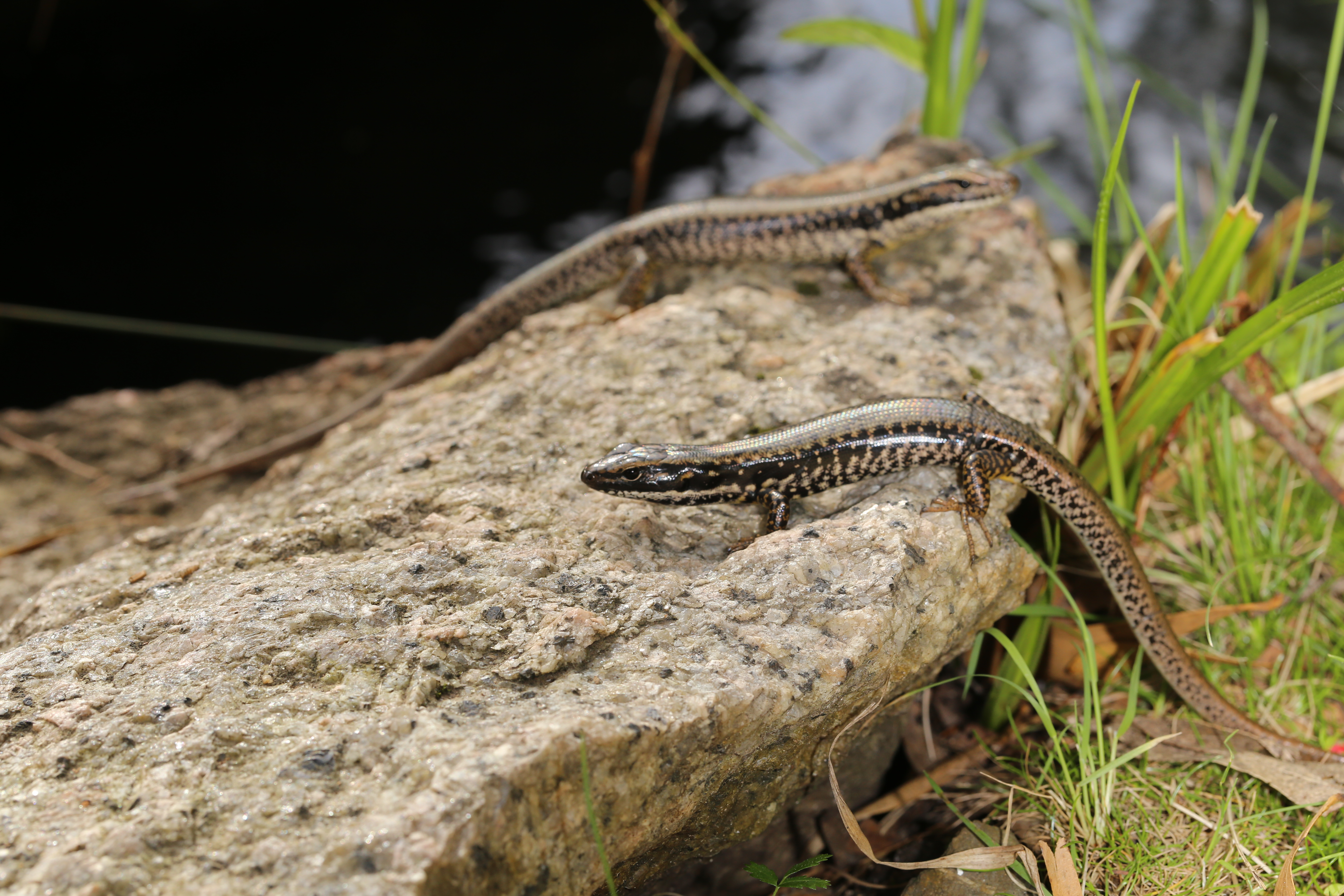 Eulamprus heatwolei Wells & Wellington, 1983, Tidbinbilla Reserve, ACT, 11 October 2017